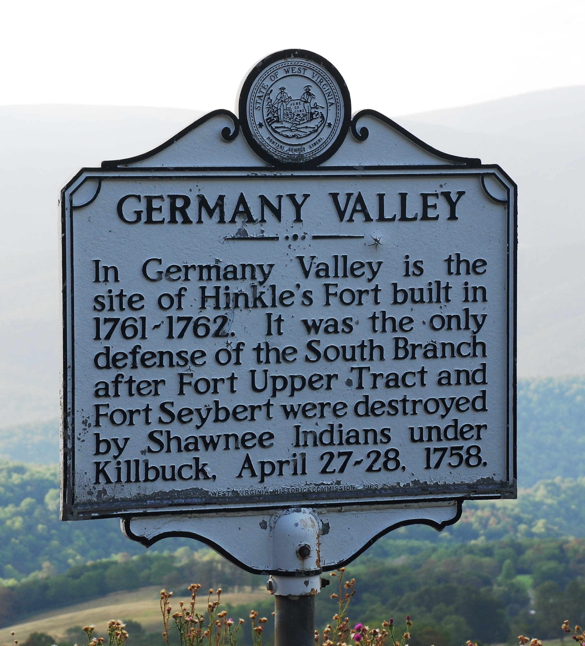 Historical Marker about Germany Valley in Pendleton County, West Virginia. Picture taken on US 33 on North Fork Mountain. Text: "GERMANY VALLEY In Germany Valley is the site of Hinkle’s Fort built in 1761-1762 . It was the only defense of the South Branch after Fort Upper Tract and Fort Seybert were destroyed by Shawnee Indians under Killbuck, April 27-28 1758.".